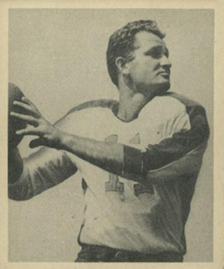 American football player Tommy Thompson (quarterback) on a 1948 Bowman card.